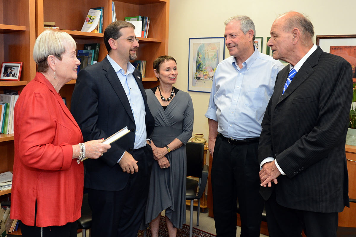 Ambassador Shapiro Connects with Future Leaders in the Yezraeel Valley.